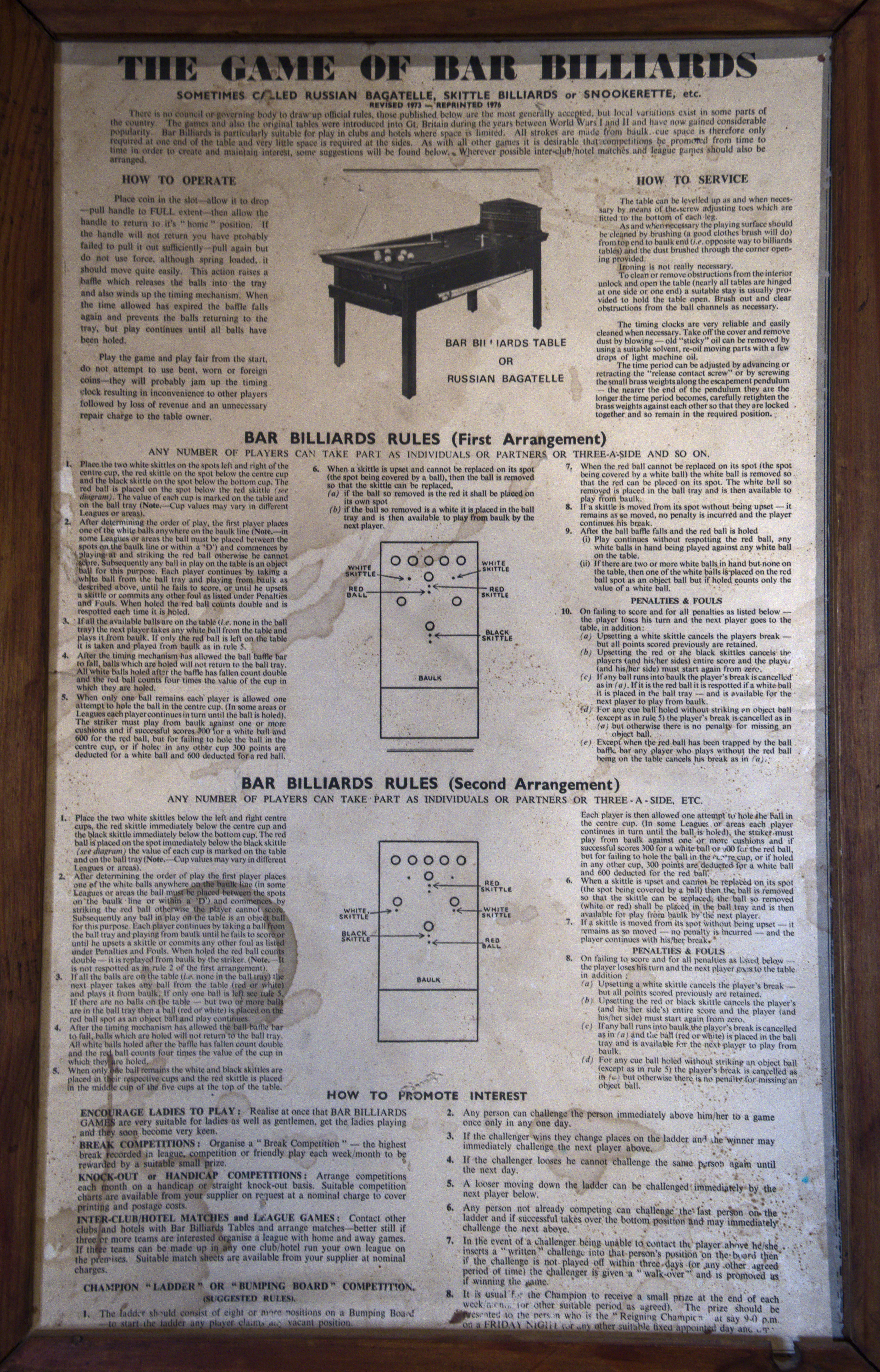 Rules from 1973 (reprinted 1976) from the Cross Scythes pub in Sheffield. Taken 2020-02-09